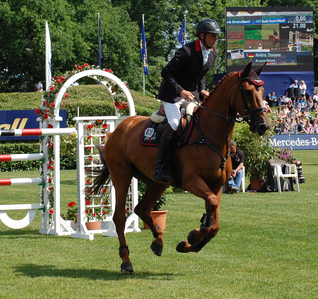 Andre Thieme with Aragon Rouet, "Championat von Hamburg", CSI 5* Hamburg 2011